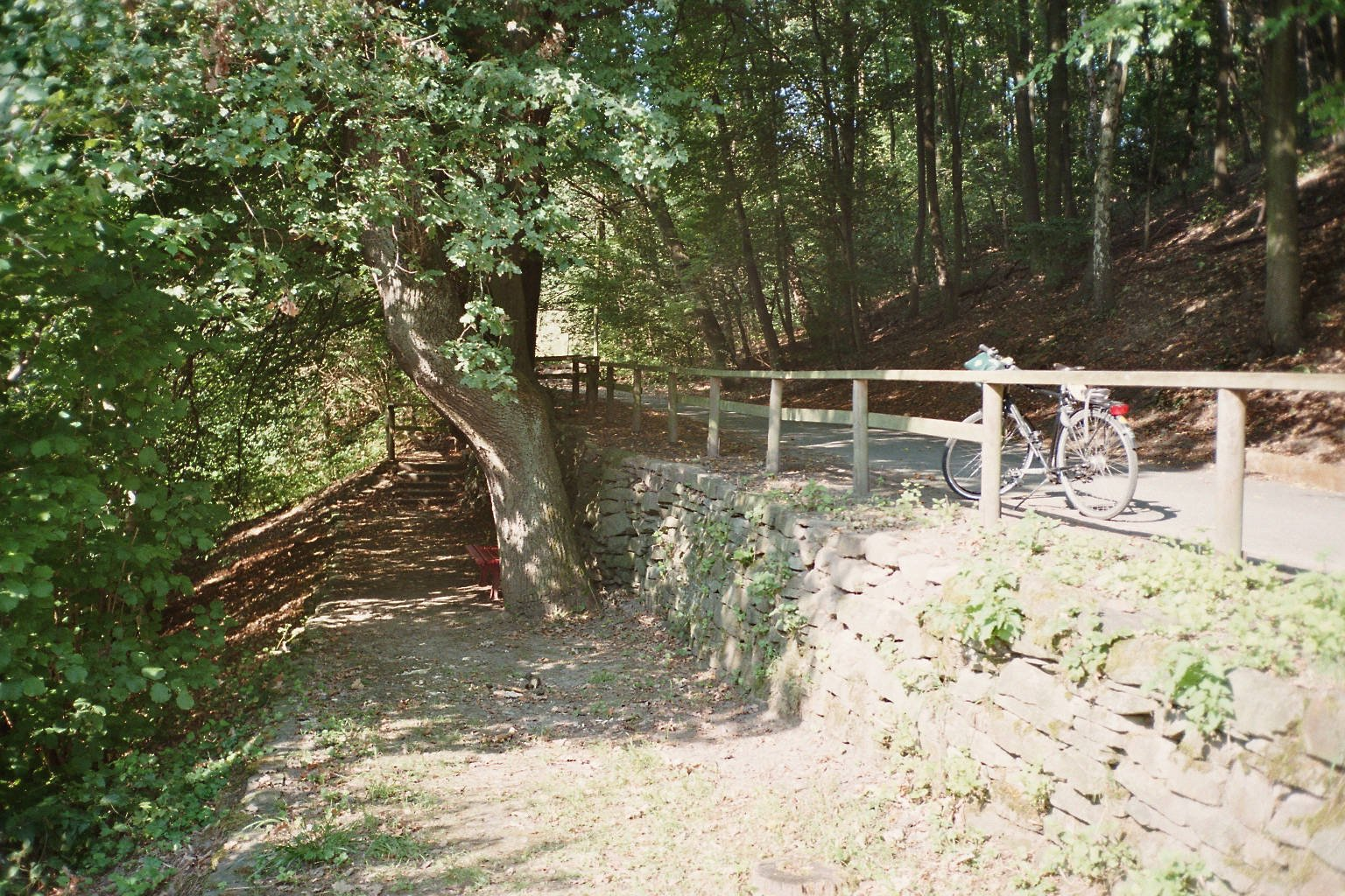 The ancient Lottentalbahn railway in Bochum, Germany